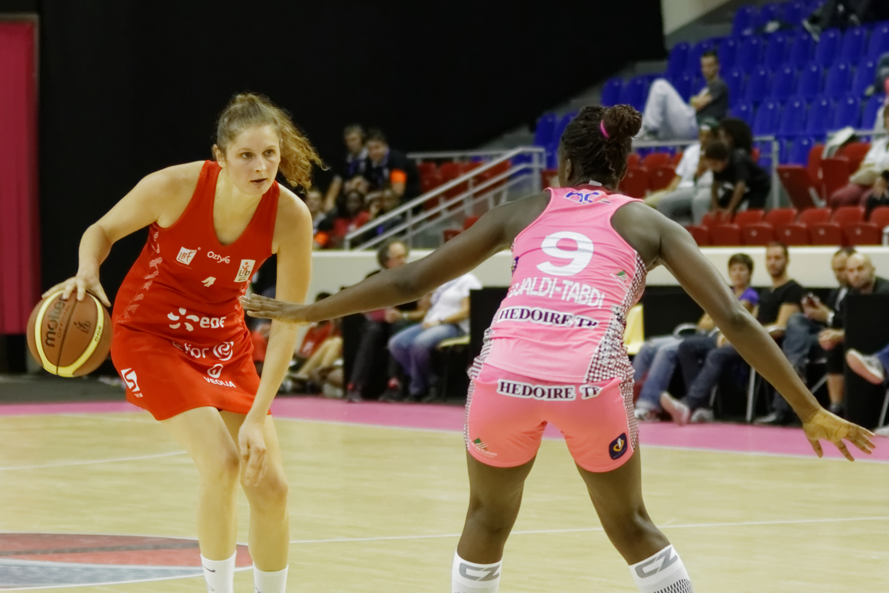 Open LFB, Arras-Lyon, October 6th, 2013.